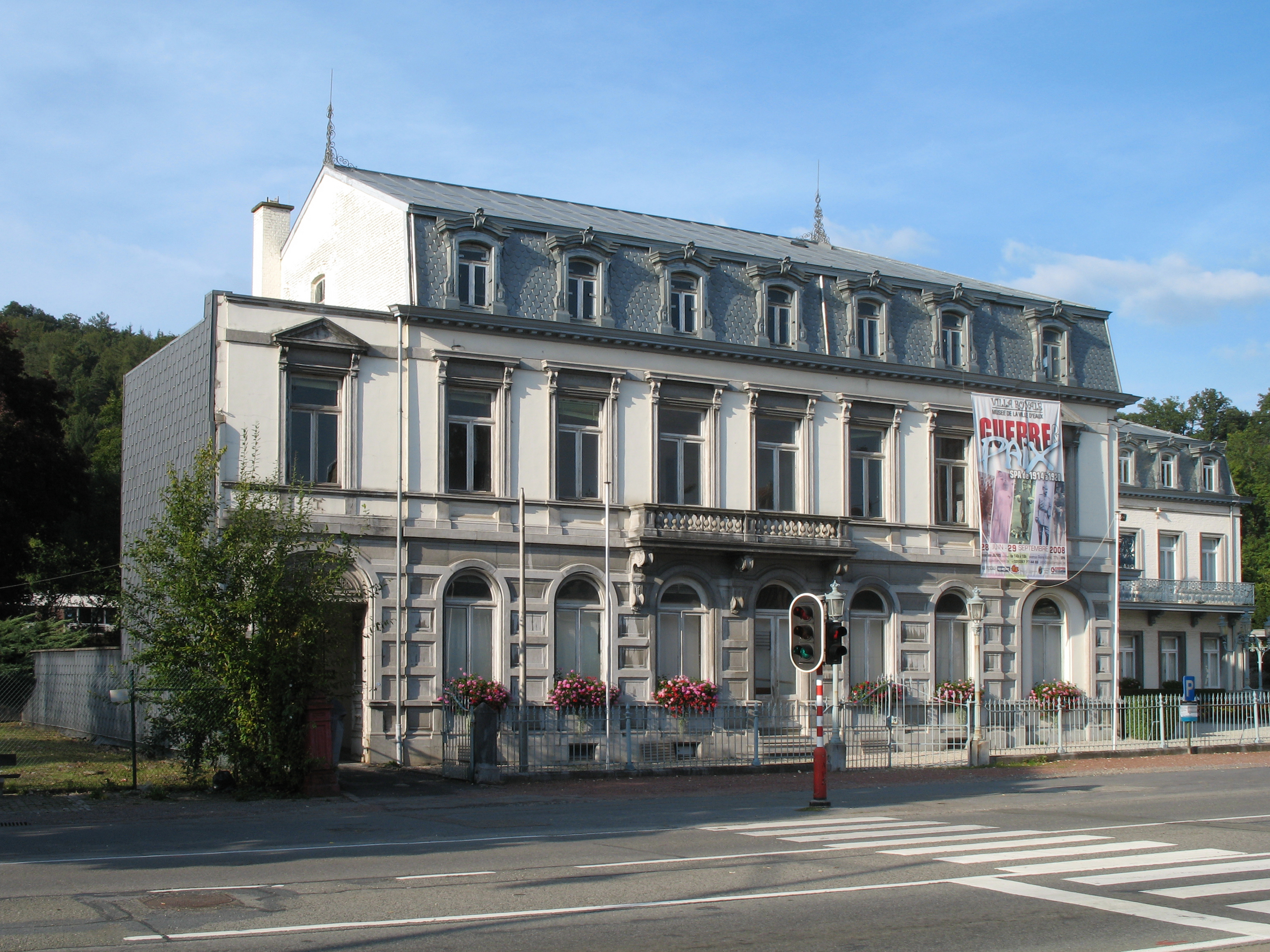 Spa (Belgium): The Villa royale or former residence of the Belgian queen Marie-Henriette, now the municipal museum